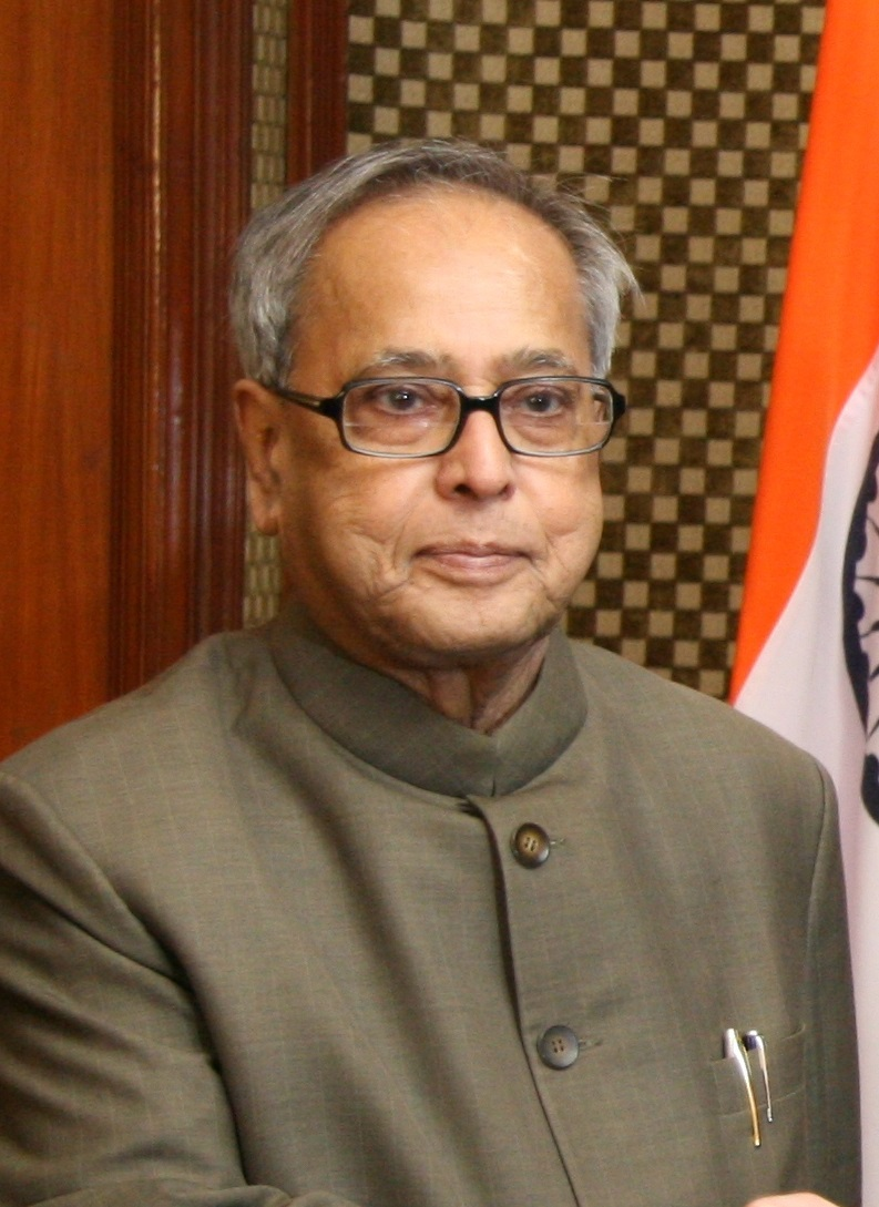 United States Secretary of the Treasury Timothy Geithner seen here with inance Minister of India Pranab Mukherjee in New Delhi, India in 2010.